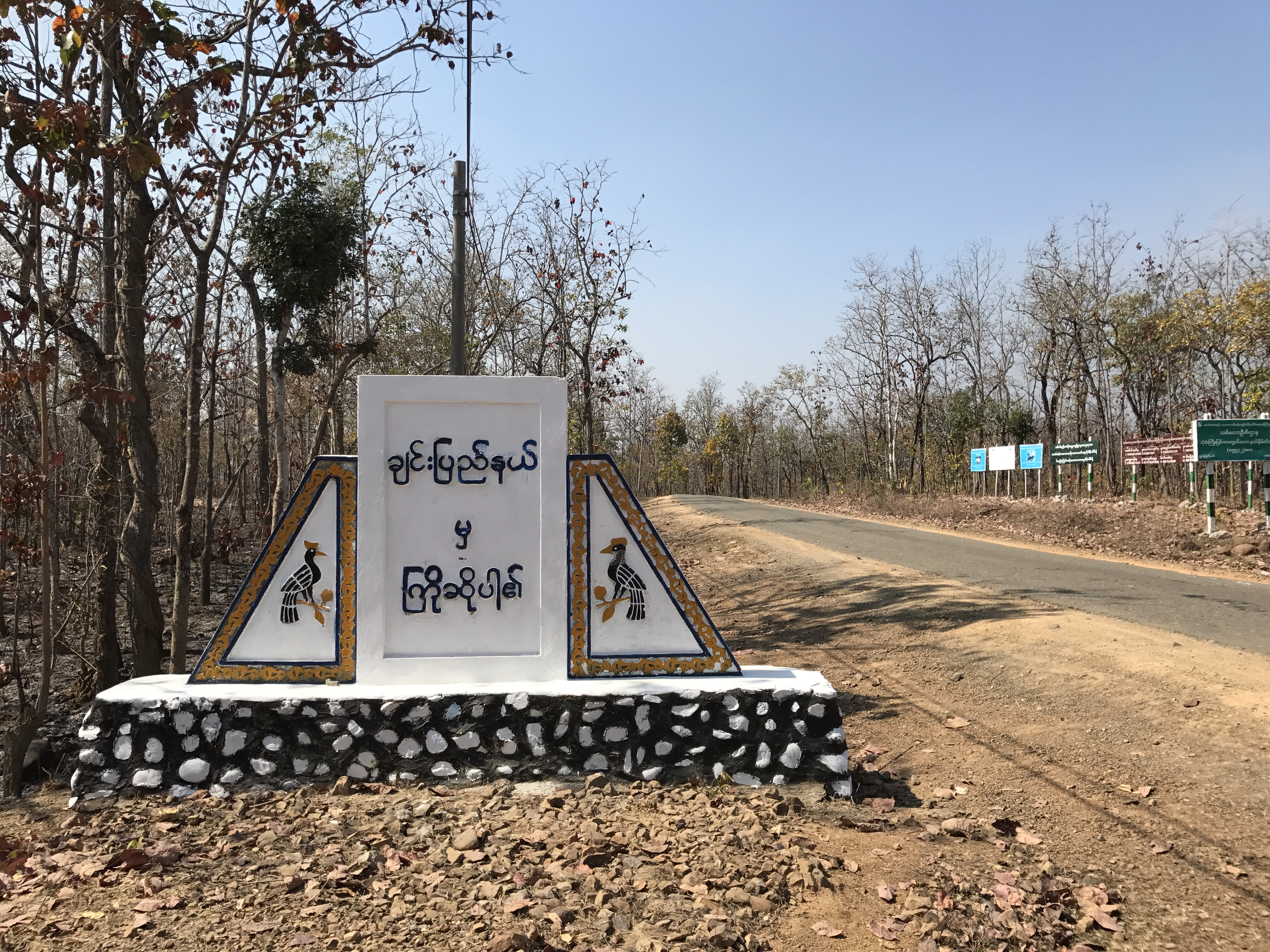 Gangaw-Hakha Road. Border between Chin State and Magway Division.